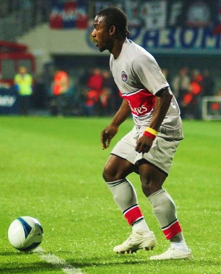 Stéphane Sessègnon